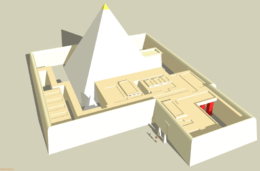 Restoration of the pyramid and temple of Iput II at Saqqara - 6th dynasty of Egypt